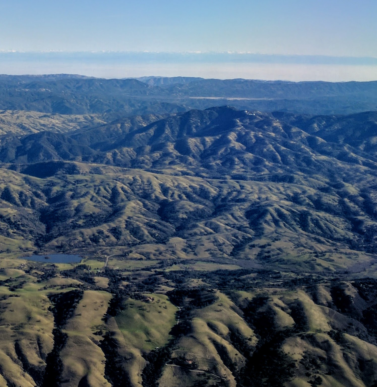 Lick Observatory and Mount Hamilton, looking east on takeoff from Mineta San José International Airport